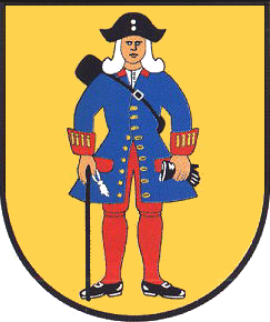 Coat of Arms of Wandersleben